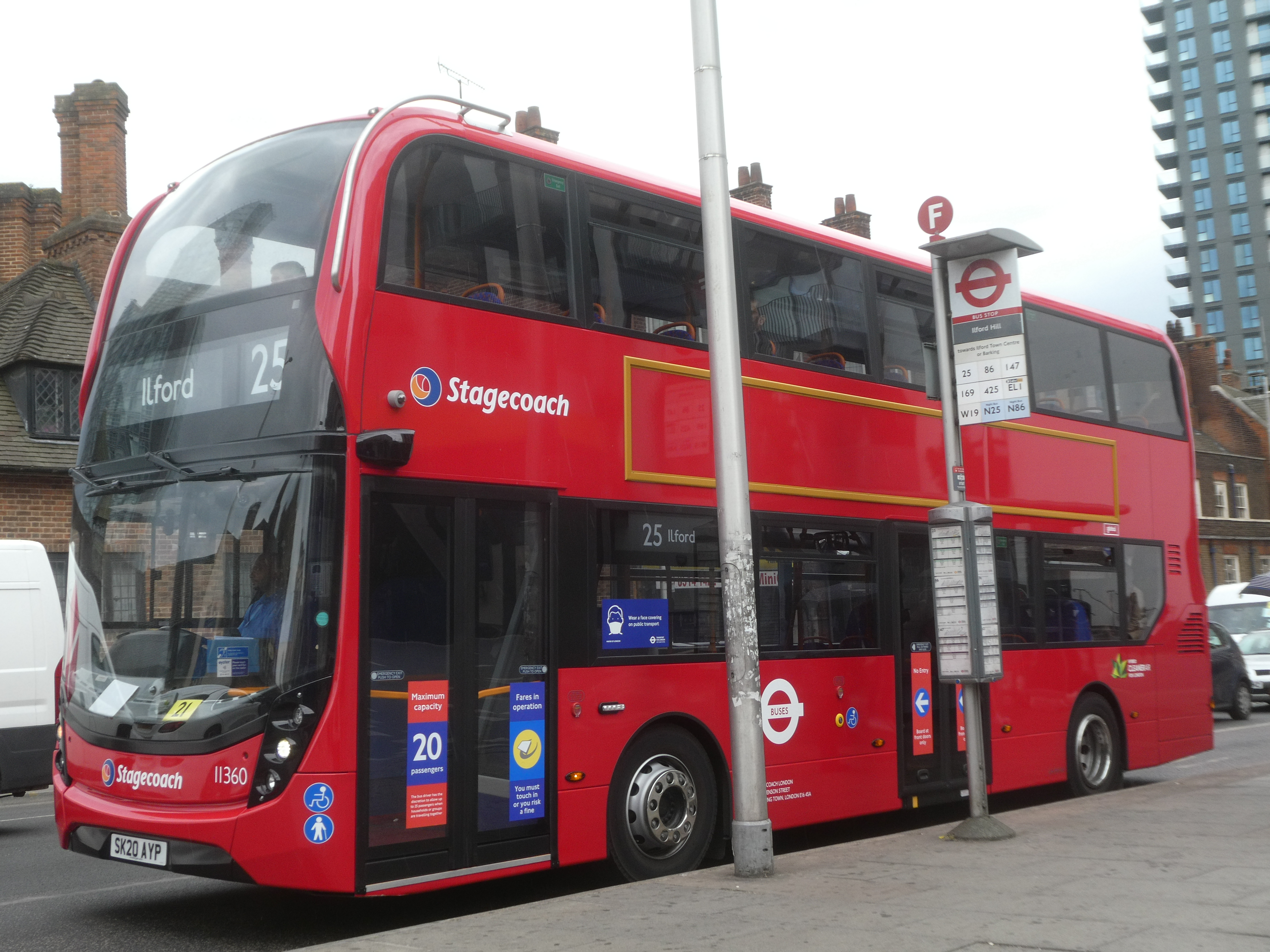 Signage on London buses during the 2020 covid pandemic